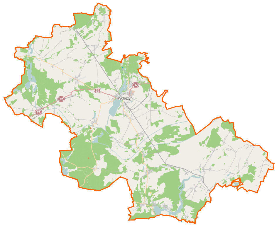 Map of Powiat wolsztyński, Poland This map of Powiat wolsztyński was created from OpenStreetMap project data, collected by the community. This map may be incomplete, and may contain errors. Don't rely solely on it for navigation. Border coordinates52.251815.8272←↕→16.473351.9235